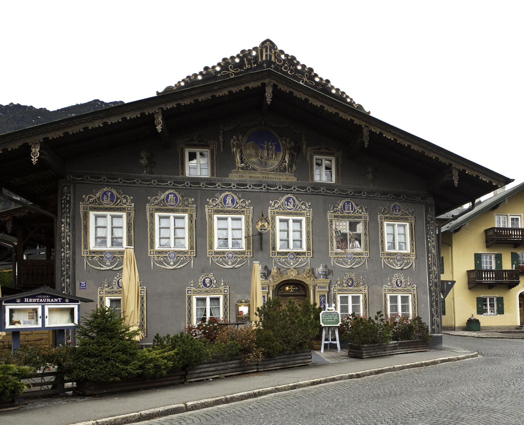 restaurant Zum Husaren in Garmisch-Partenkirchen